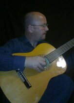 Photo is of Kanavan playing guitar at a concert in Warrington 2010